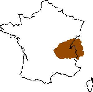 Arpitan language in France.